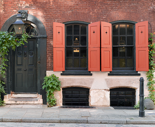 Dennis Severs House façade photographed from Folgate Street, London in 2010